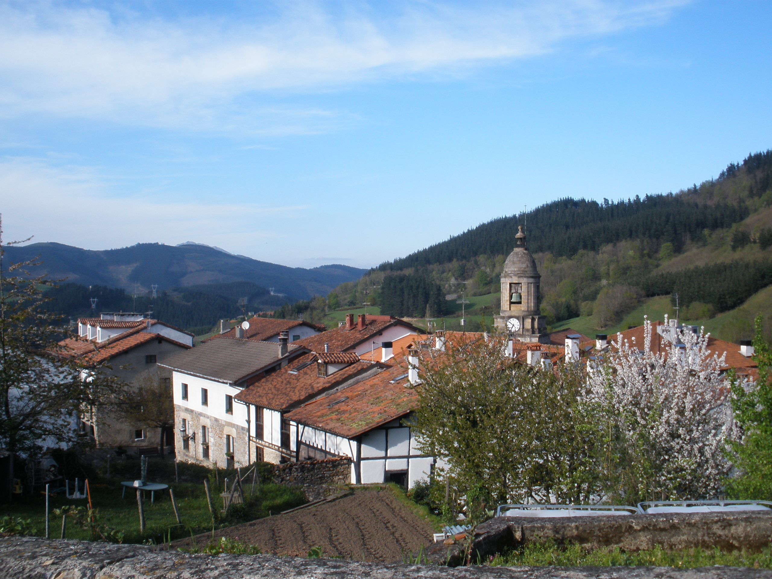 Leintz Gatzaga town in Gipuzkoa